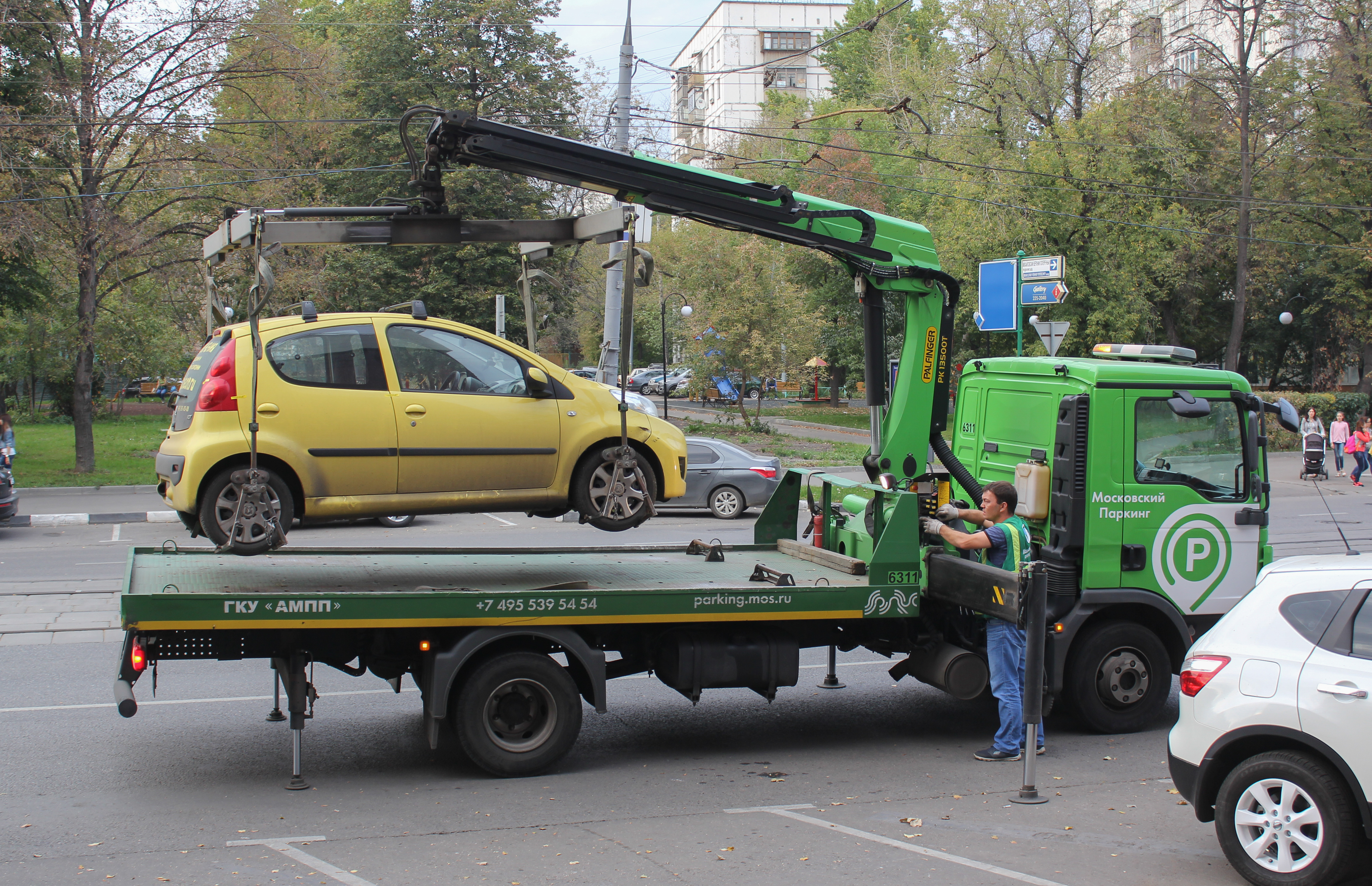 Tow truck takes illegal parked car in Moscow